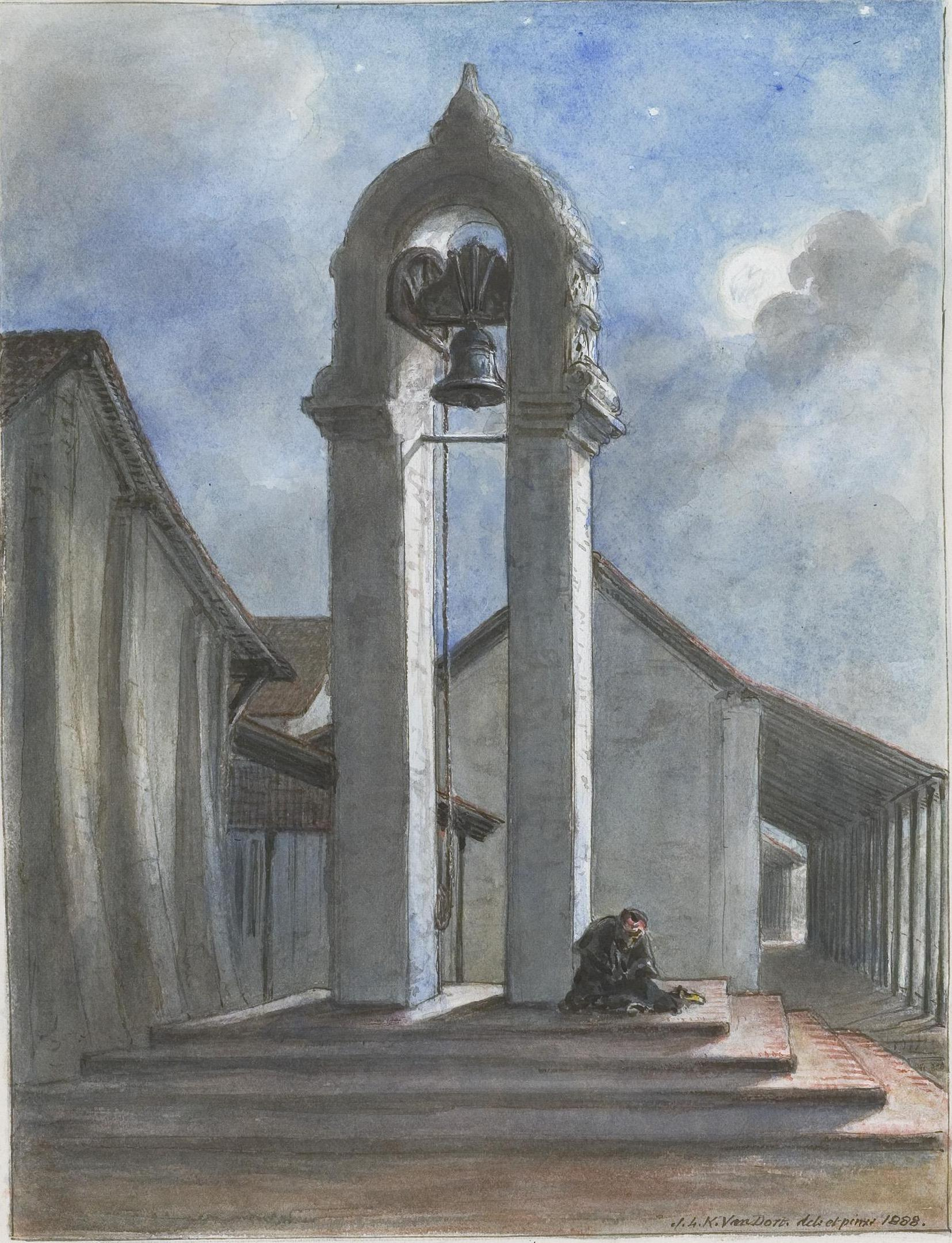 Water colour painting by J. L. K. van Dort